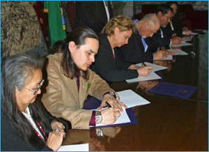 Washington Governor Christine Gregoire, representatives from coastal Native American tribes, and NOAA signing an agreement forming the Olympic Coast Intergovernmental Policy Council.